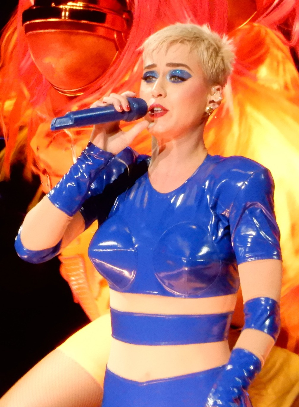 Katy Perry at Madison Square Garden